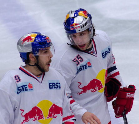 25.10.2013, Stadthalle Villach, AUT, EBEL, 27. Runde, EC VSV vs. EC RED BULL Salzburg, im Bild // frostworx Pictures © 2013, PhotoCredit: frostworx / Alex Micheu